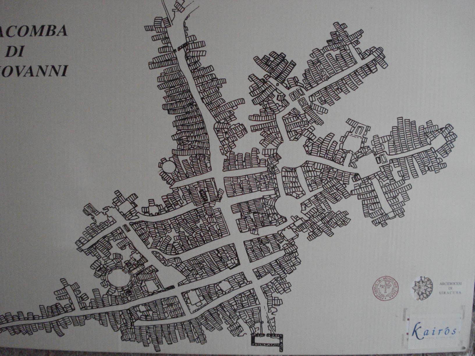 San Giovanni Catacombs' plan (Syracuse)